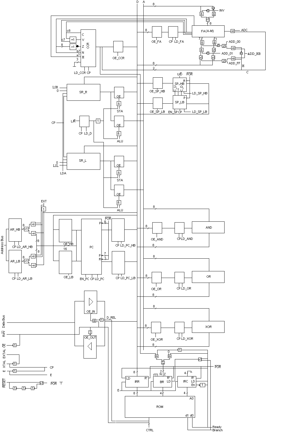 CPU 1.2